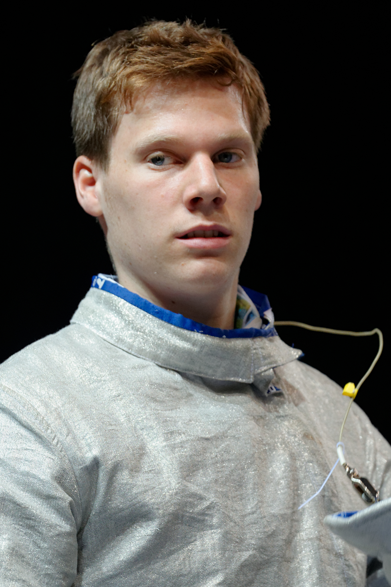 Hungary's András Szatmári during the men's sabre team event of the European Fencing Championships at Rhénus Sport in Strasbourg on 14 June 2014.